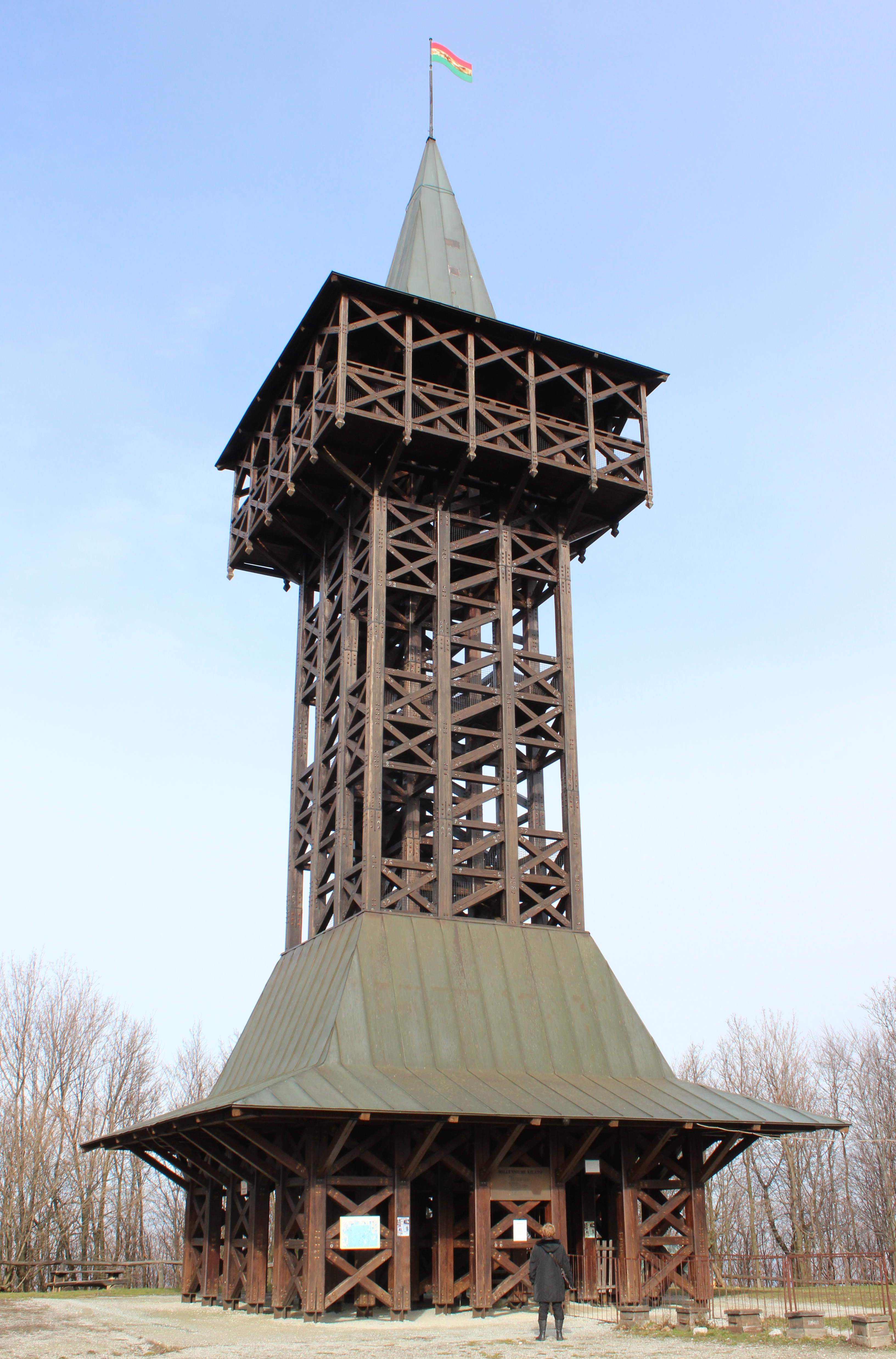 Lookout tower on Kalapat Hill. Szilvásvárad, Hungary.